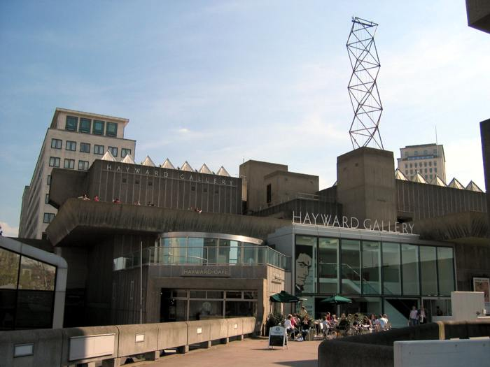 Hayward Gallery, London. Photograph taken by Michael Reeve, 24 April 2004.